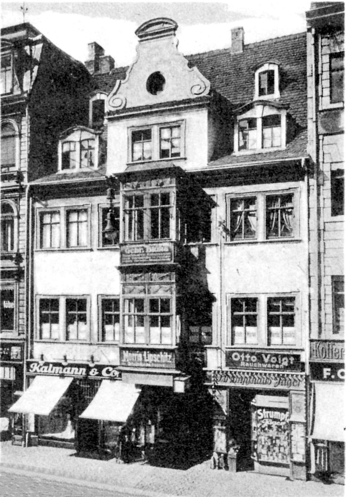 The "Goldene Eule" at Brühl 25, builded 1690